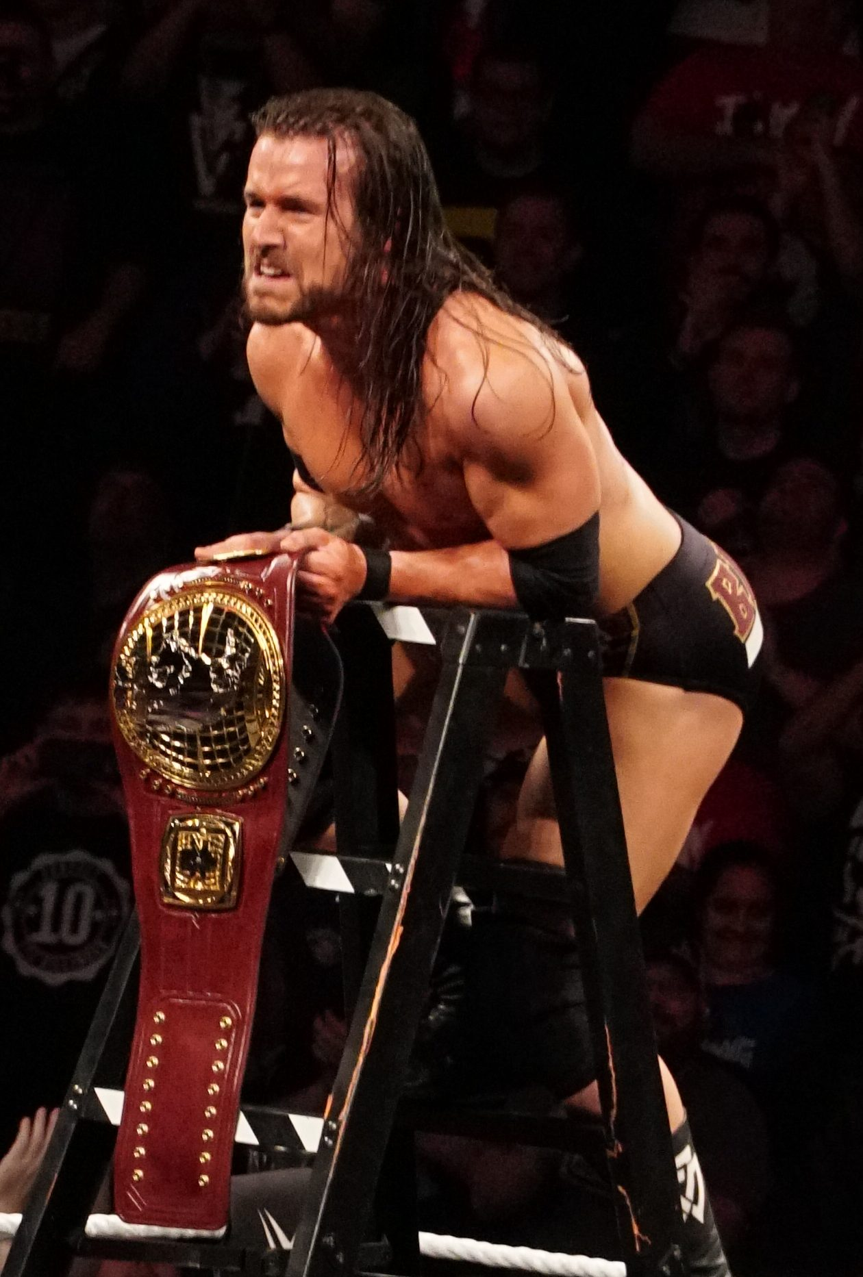 NOLA 2018 - WWE NXT Takeover - New Orleans - Adam Cole Vs EC3, Killian Dain, Lars Sullivan, Ricochet, The Velveteen Dream Adam Cole def. EC3, Killian Dain, Lars Sullivan, Ricochet, The Velveteen Dream (in 31:16) Type of match : ladder (6-way) For : NXT North American Championship (title change) Rating : ***** ( Deux semaines a Nola pour la ville et pour WWE Wrestlemania XXXIV Two weeks Nola for the city and for WWE Wrestlemania XXXIV )